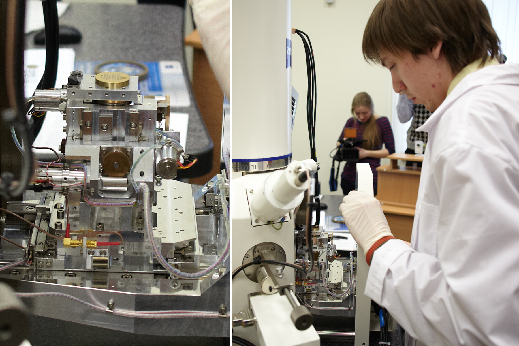 Ural Federal University scientists study meteorite samples found at Chebarkul lake after 2013 Russian meteor event